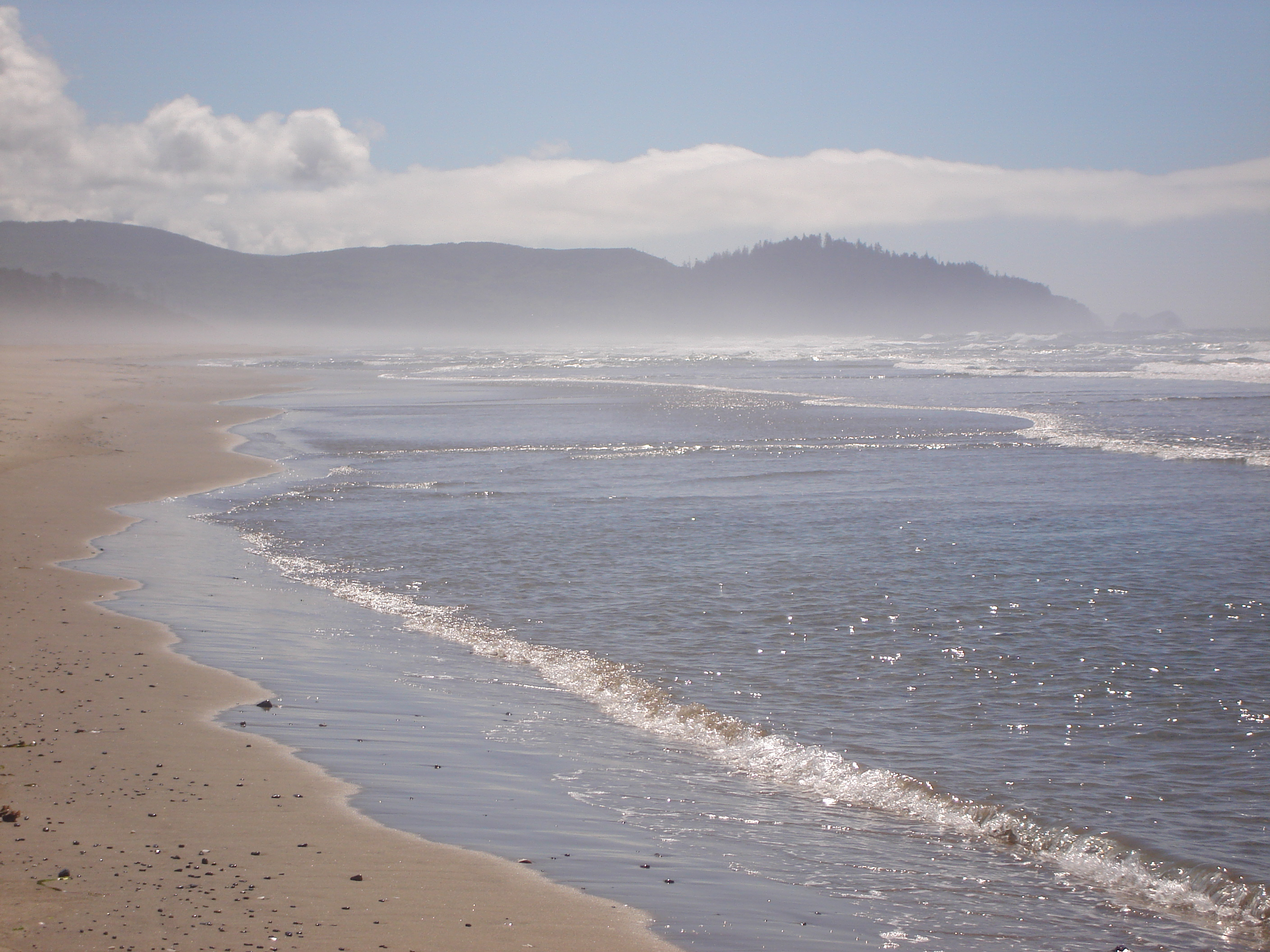 A picture I took from the beach of Cape Meares, Oregon.